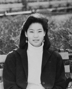 Photo of Lucy Liu as a senior in high school.